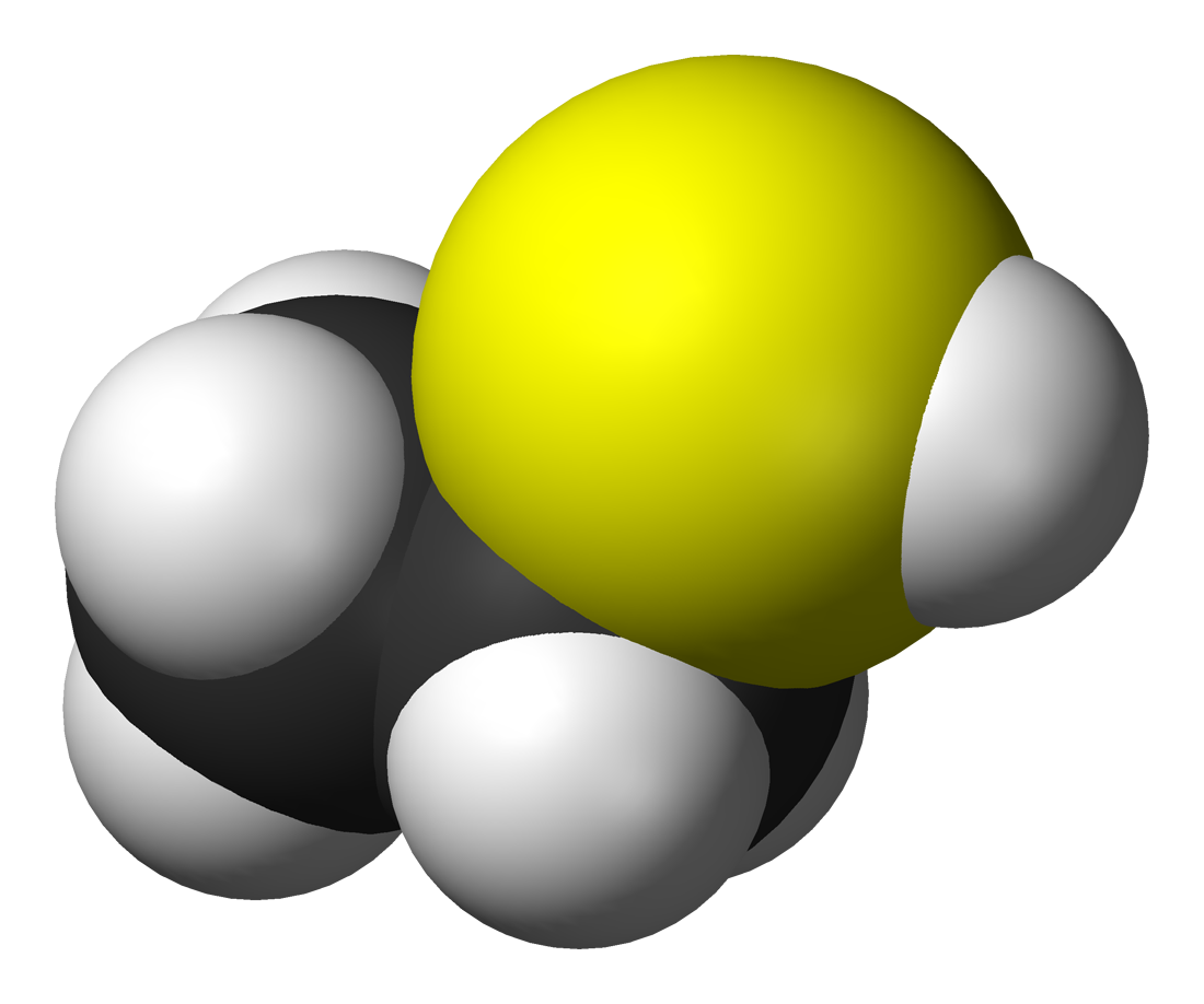 Space-filling model of ethanethiol